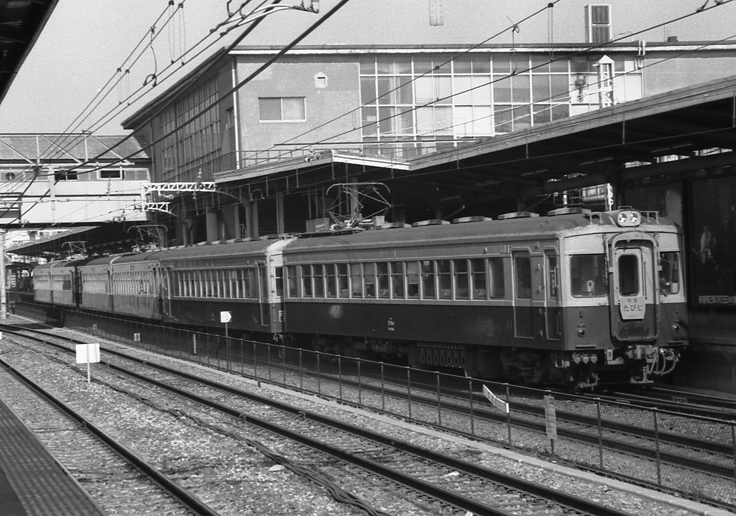 Tobu Series 5700 at Kita Senju Station